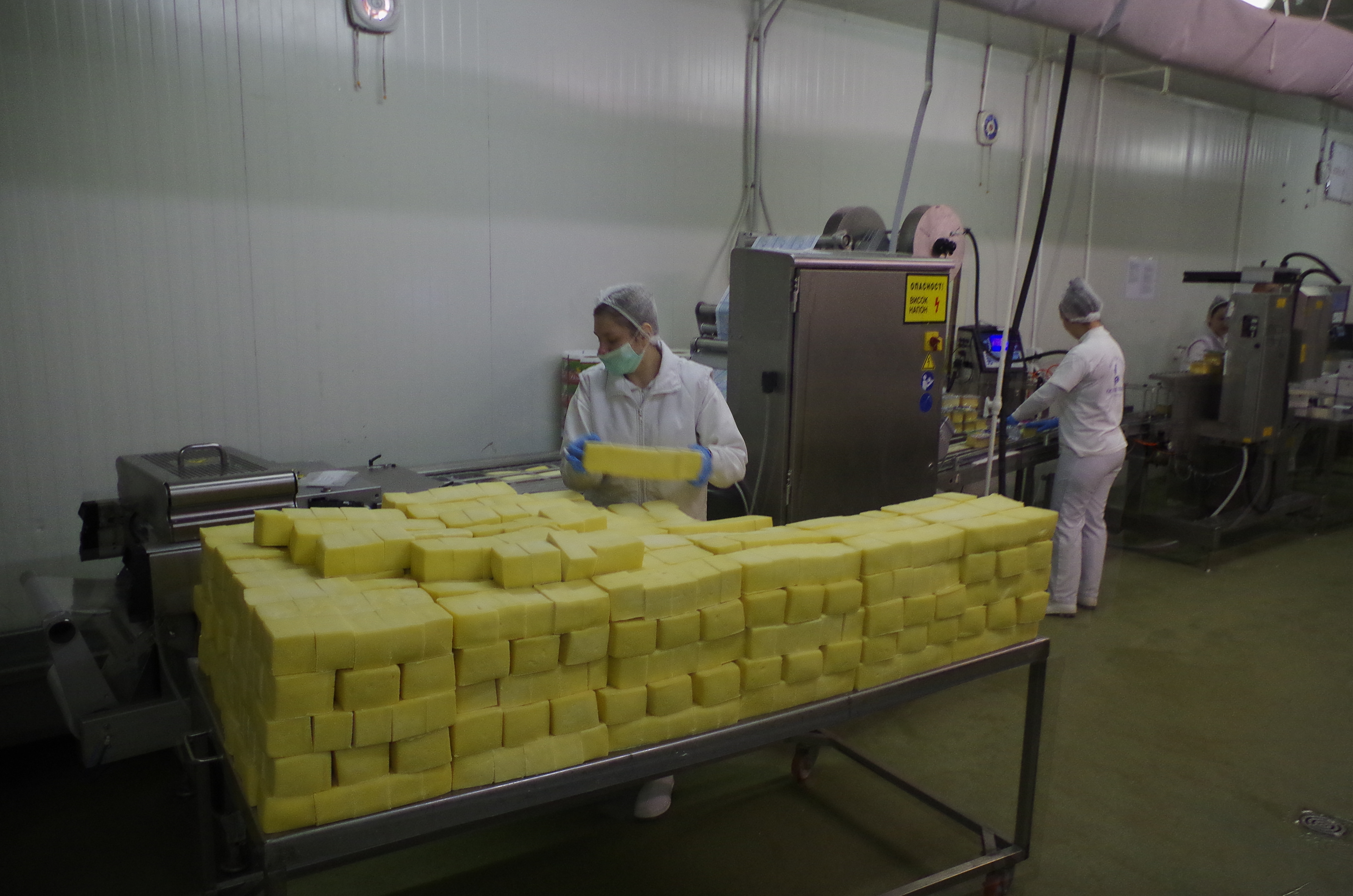 Dairy Osogovo Milk in Sokolarci, Macedonia